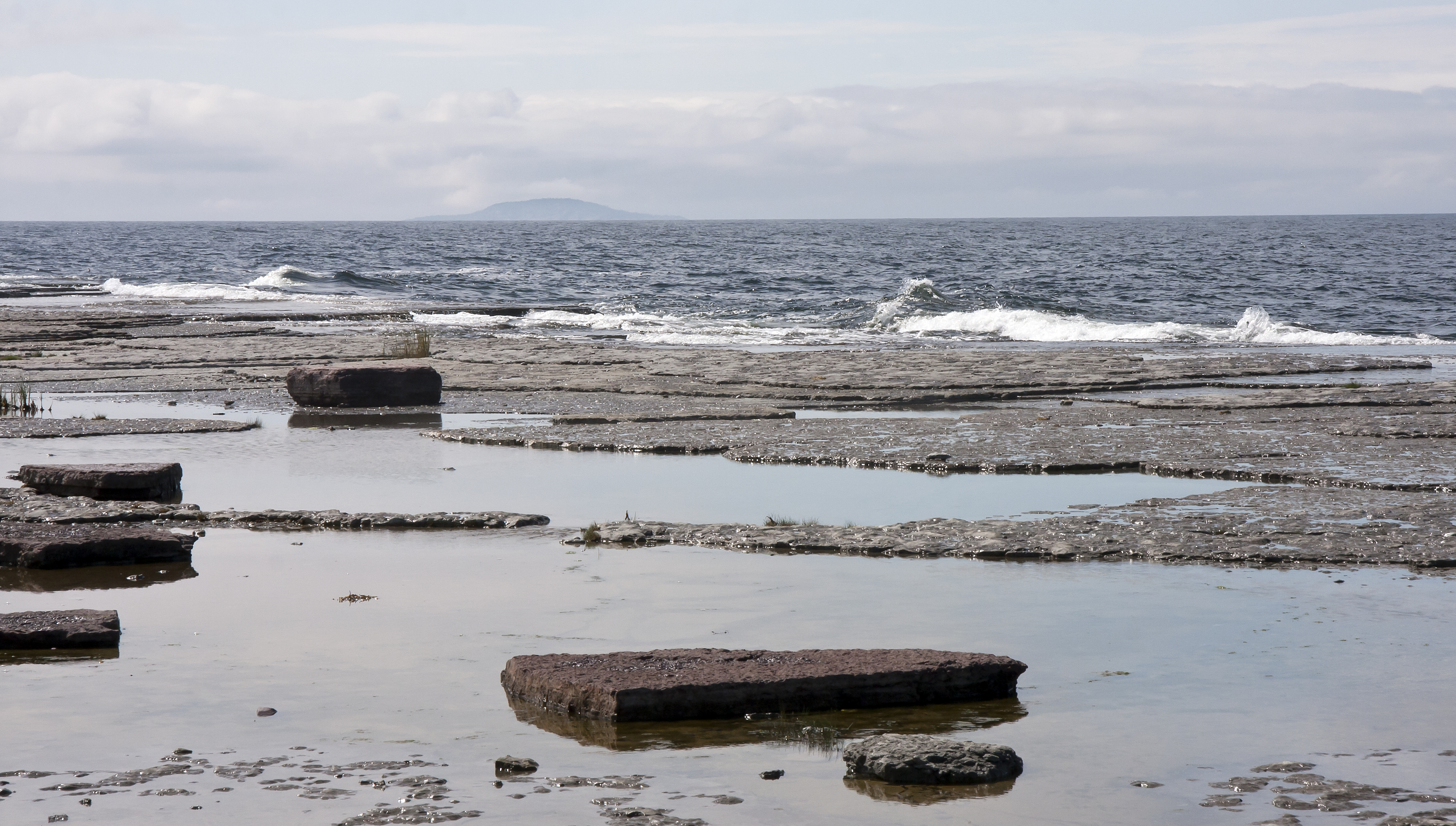 The Neptuni åkrar cobble beach in northern Öland, Sweden.